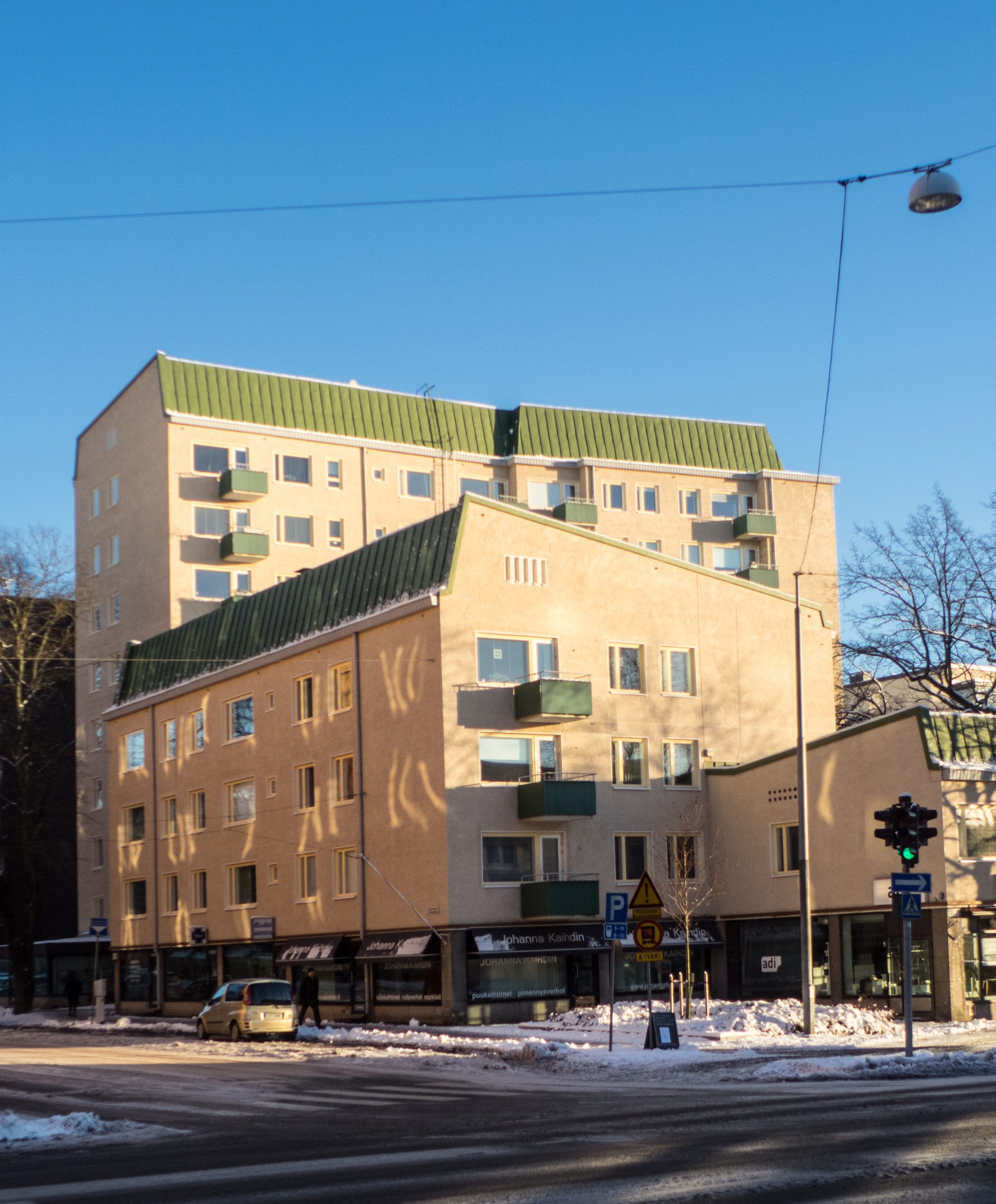 A handsome 1950s apartment building at Puistokatu #3, architect Olli Kestilä, completed 1955.